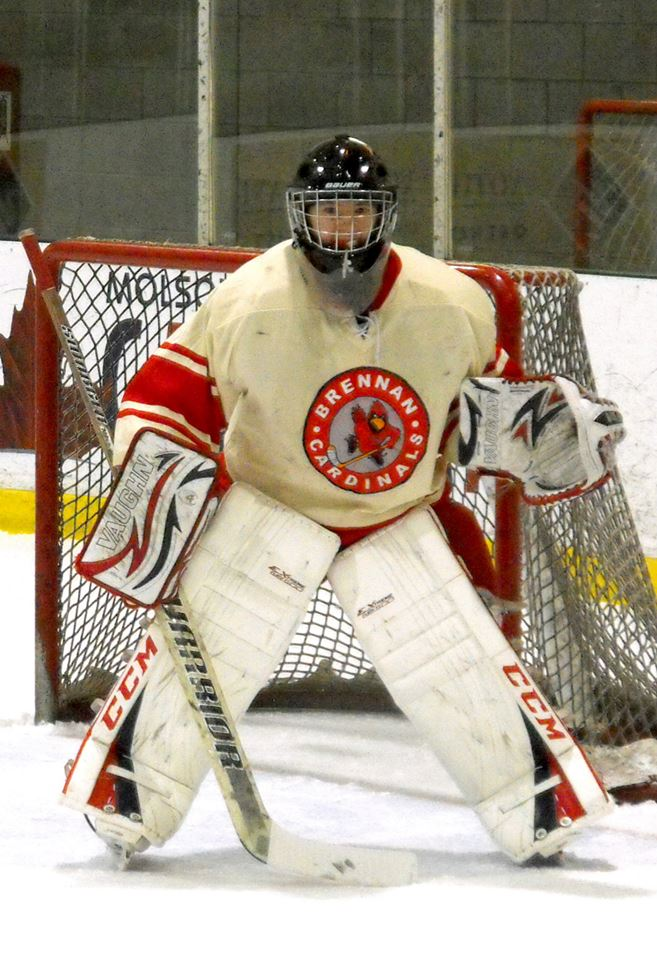 This photo was taken by Devan Mighton during the 2014-15 WECSSAA season.